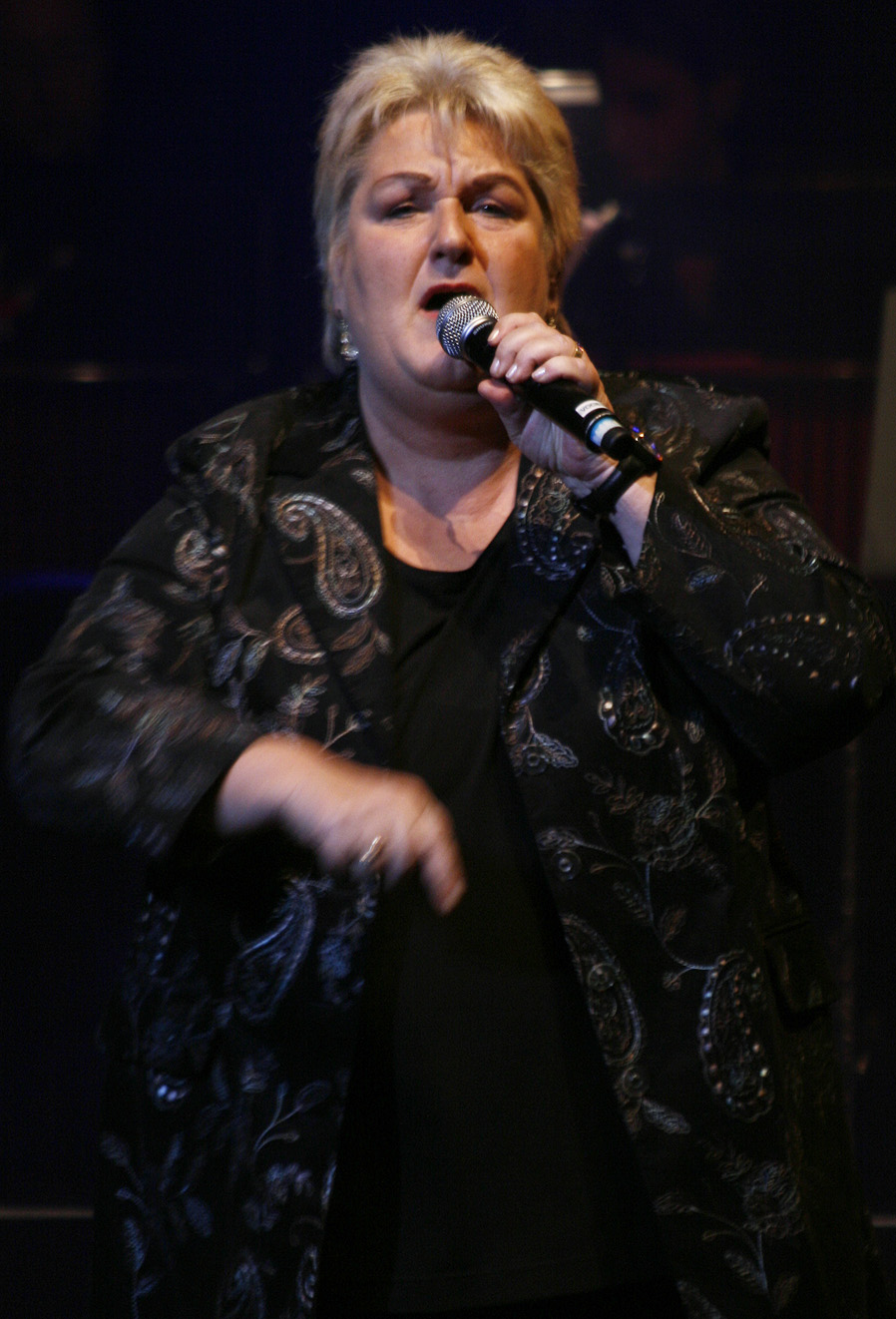 Stefanie Werger; charity concert 'atemberaubend 08' in support of researching pulmonary hypertension (lungenhochdruck.at) at the Wiener Stadthalle.